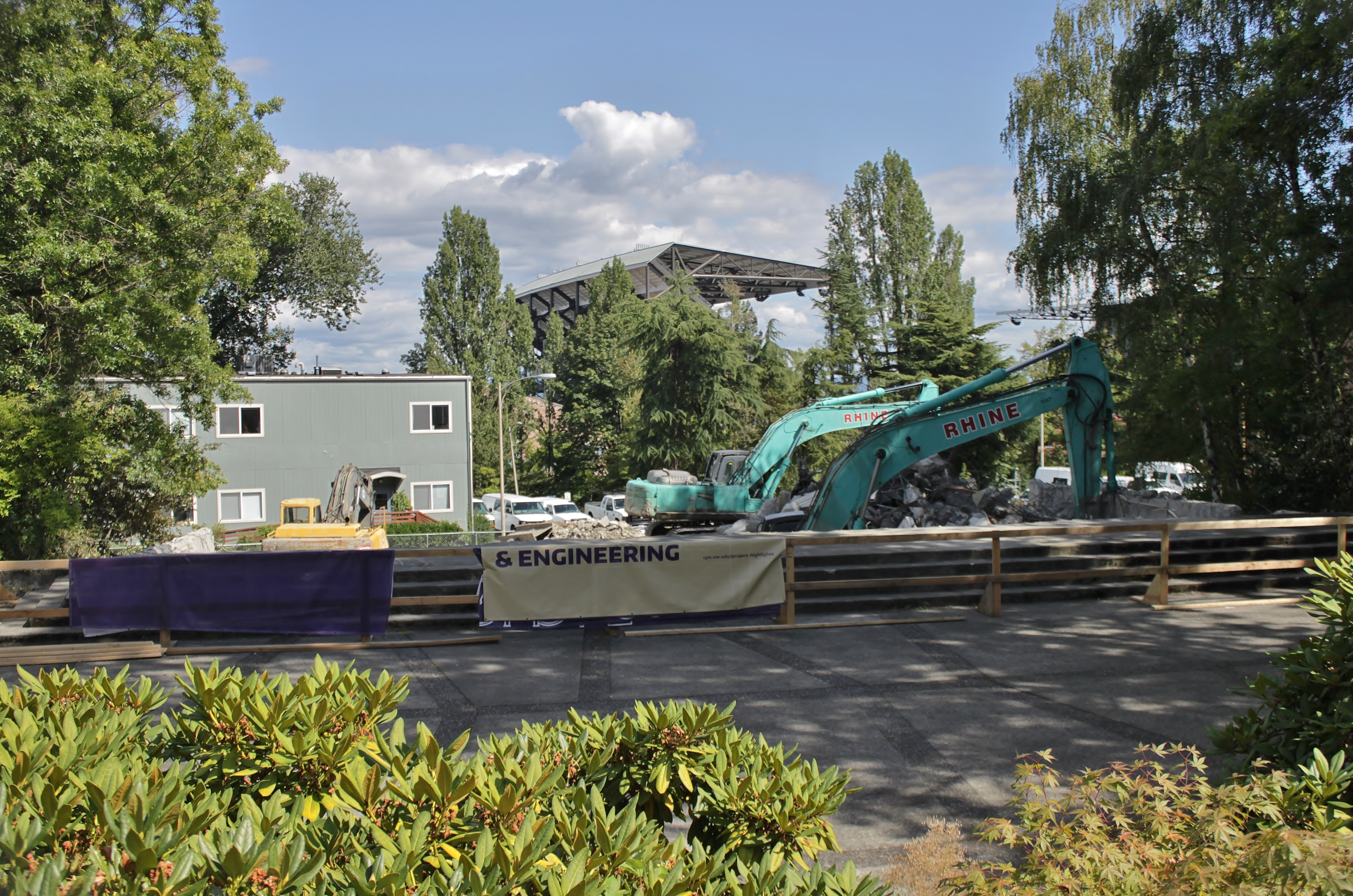 Demolition of More Hall Annex, formerly the Nuclear Reactor Building, on the campus of the University of Washington in Seattle, Washington.